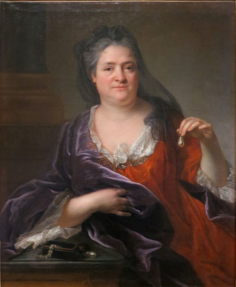 Portrait of a Woman, so-called Princess Palatine Elisabeth Charlotte then Duchess of Orléans